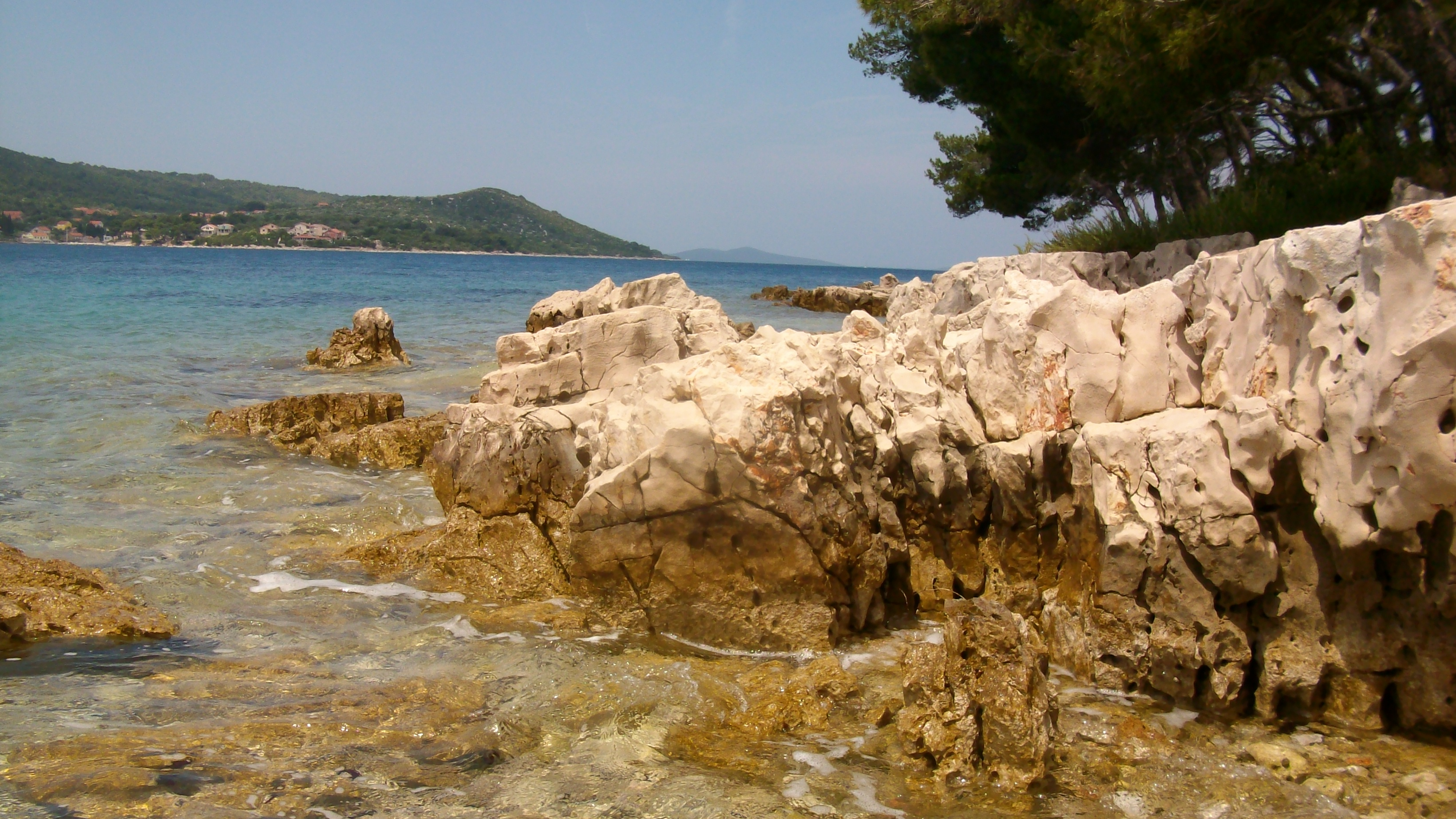 Island Rutnjak, Veli Iž (Drage) in the back, Croatia